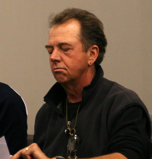 Gregory Itzin signing autographs @ MCM London Expo in 2006